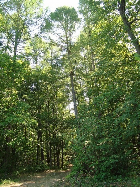 Chechqab's Zirekle forest